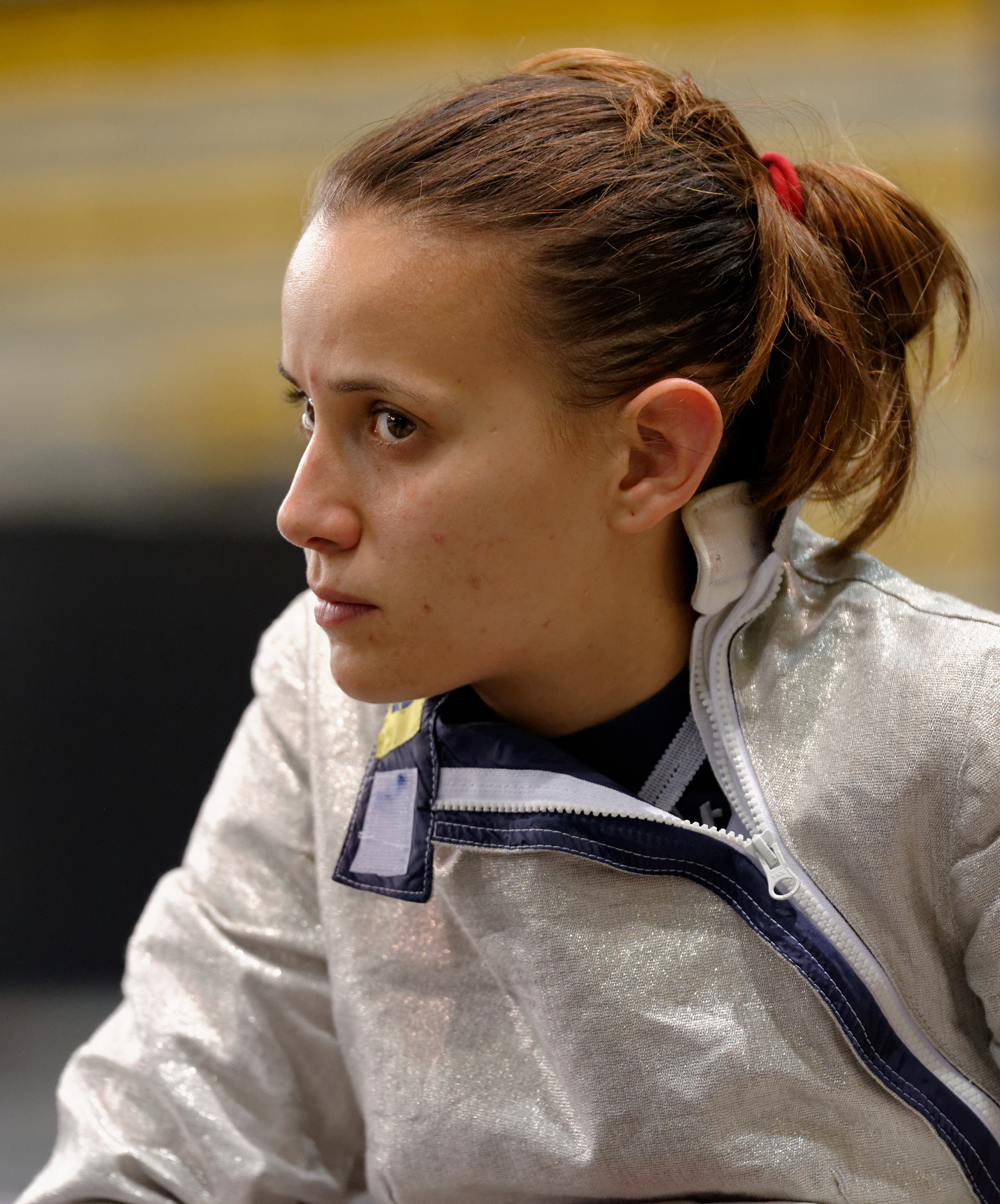 Irene Vecchi of Italy during the women's team sabre event at the European Fencing Championships at Rhénus Sport in Strasbourg on 13 June 2014.